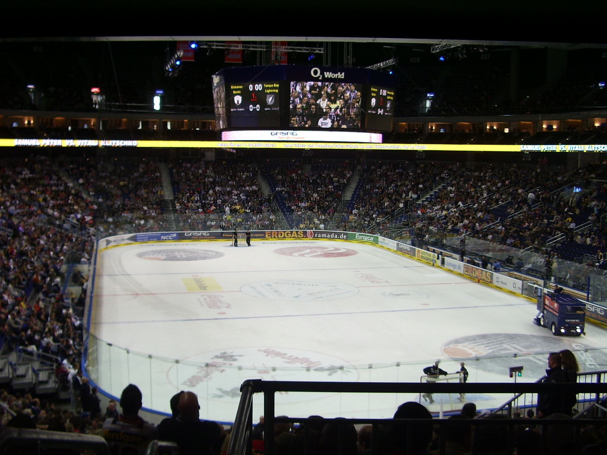 O2 World Hockey field